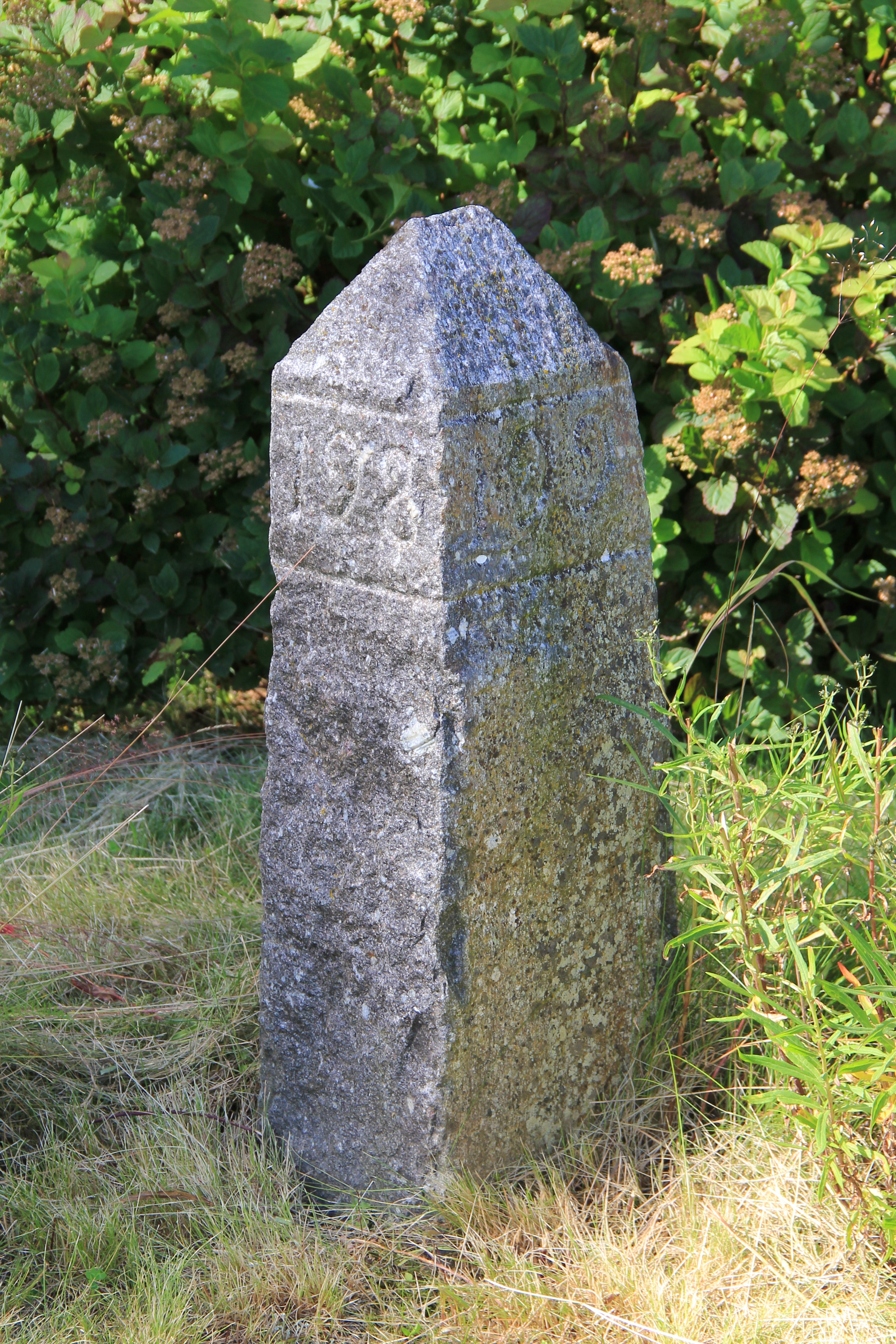 Mantal stone, Harrström, Korsnäs, Finland. - Stone is not in it's original location.